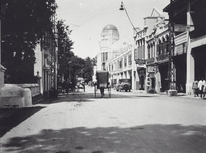 The Kesawan at Medan, with the AVROS building at the beginning of the Paleisweg